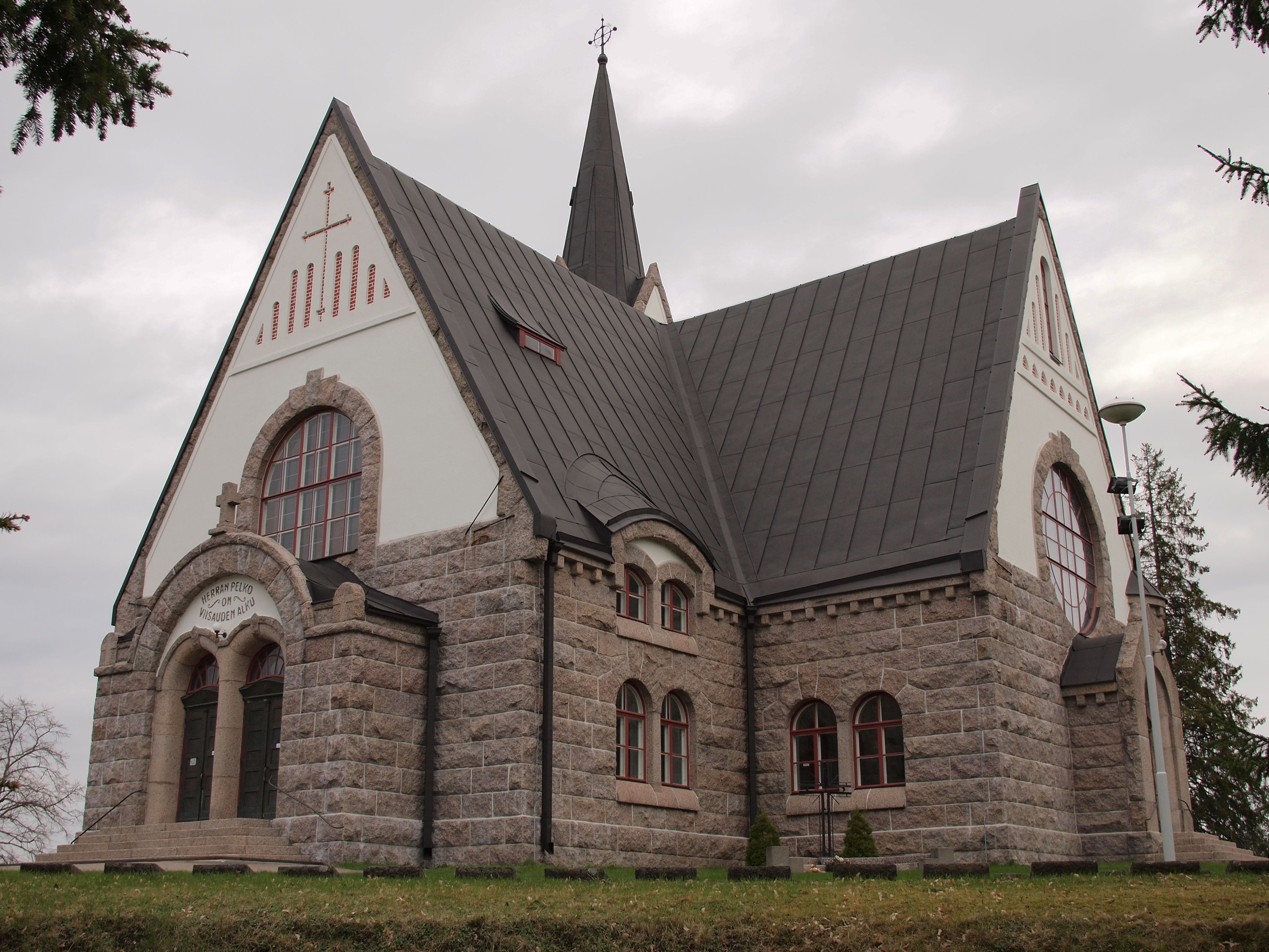 Savitaipale church was built of granite in 1921–1924. It was designed by Josef Stenbäck.